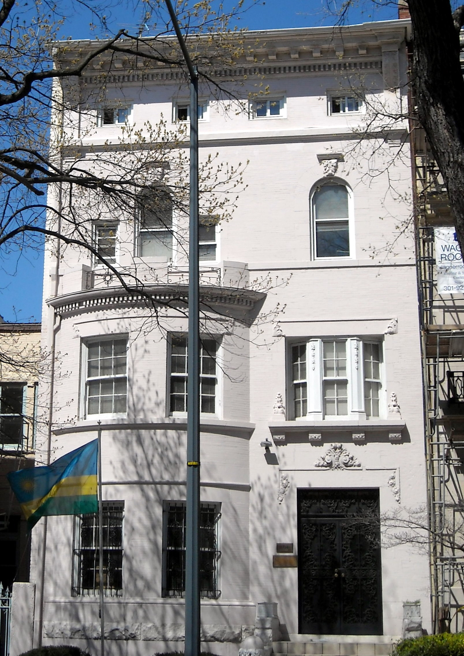 The Embassy of Rwanda located at 1714 New Hampshire Avenue, NW in the Dupont Circle neighborhood of Washington The three-story Italianate row house is a contributing property to the Dupont Circle Historic District and valued at $2,144,010. The government of Rwanda has housed its diplomatic mission in the building since the 1950s.